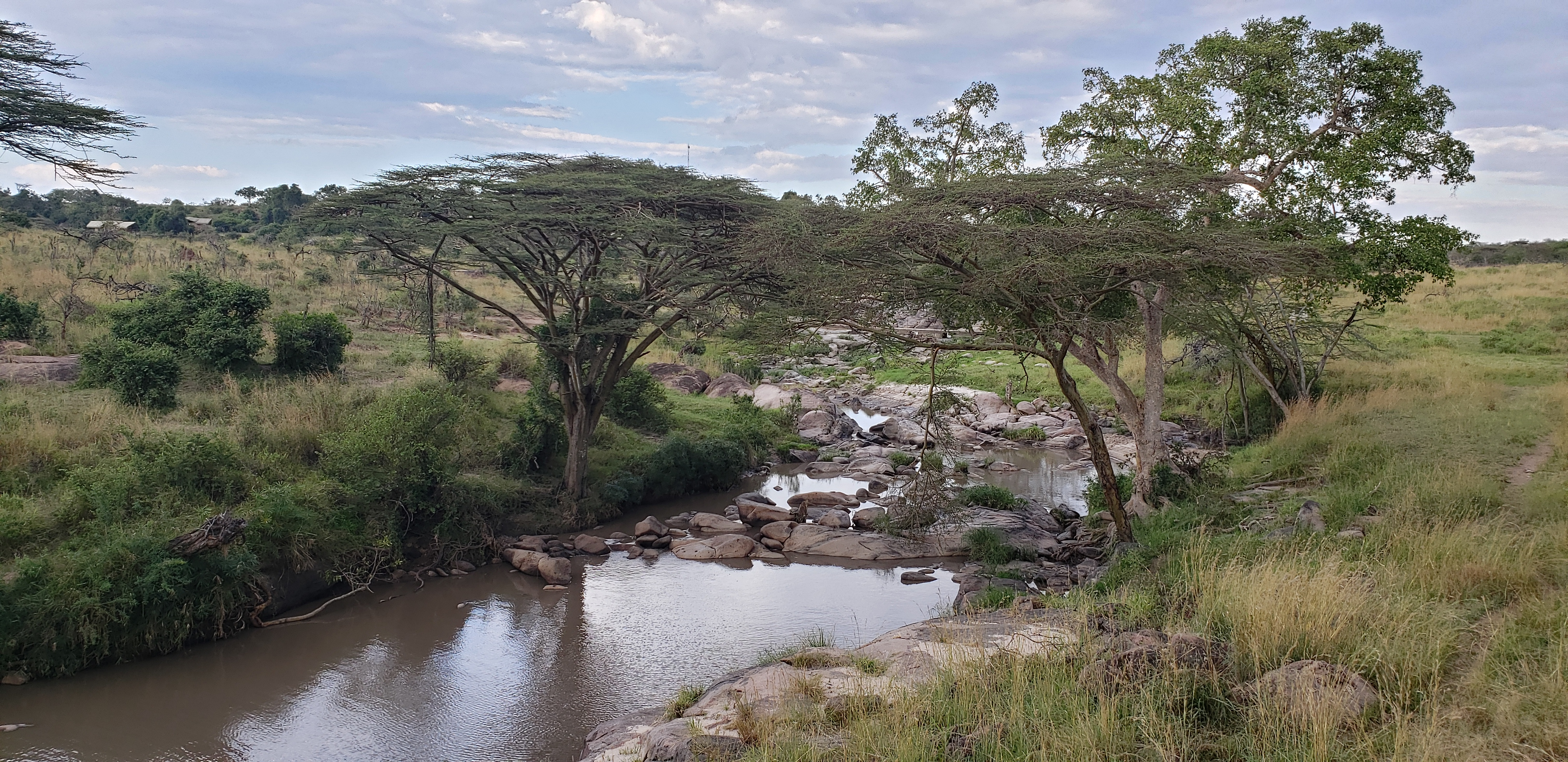 Grumeti River with hippos - Migration Camp